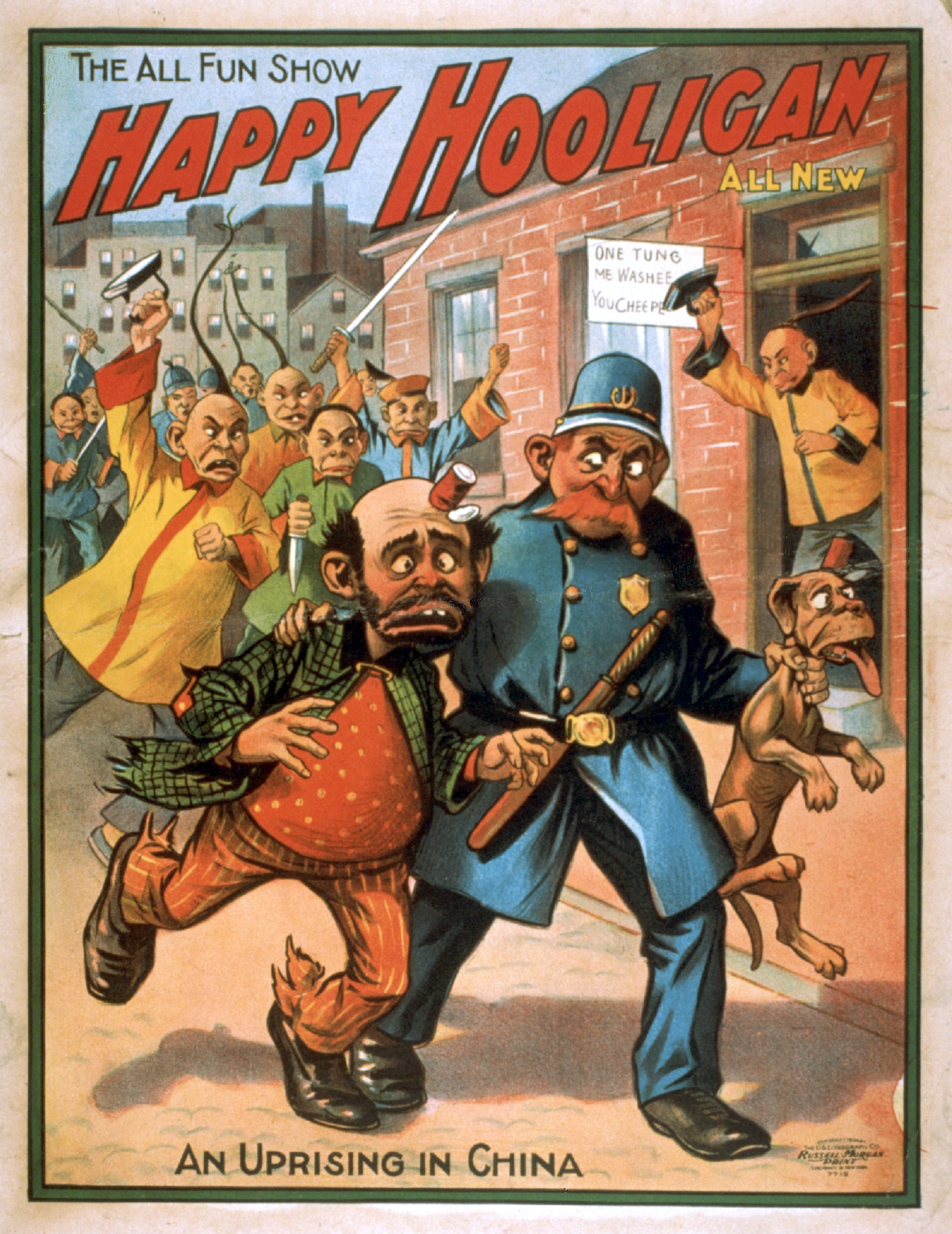 Happy Hooligan the all fun show (1904) This is a theatrical poster; the show was based on the comic character Happy Hooligan by Frederick Burr Opper.